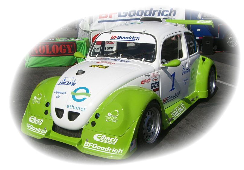 Fun Cup racing car at the Formula Drift event at Irwindale Speedway, California, USA.